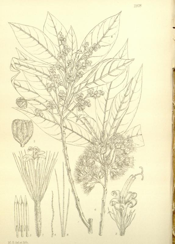 Brachylaena huillensis O.Hoffm. (as synonym B. hutchinsii Hutch.)